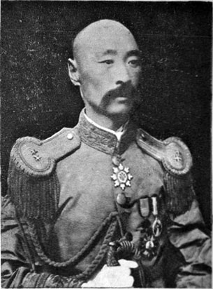 Li Jinglin